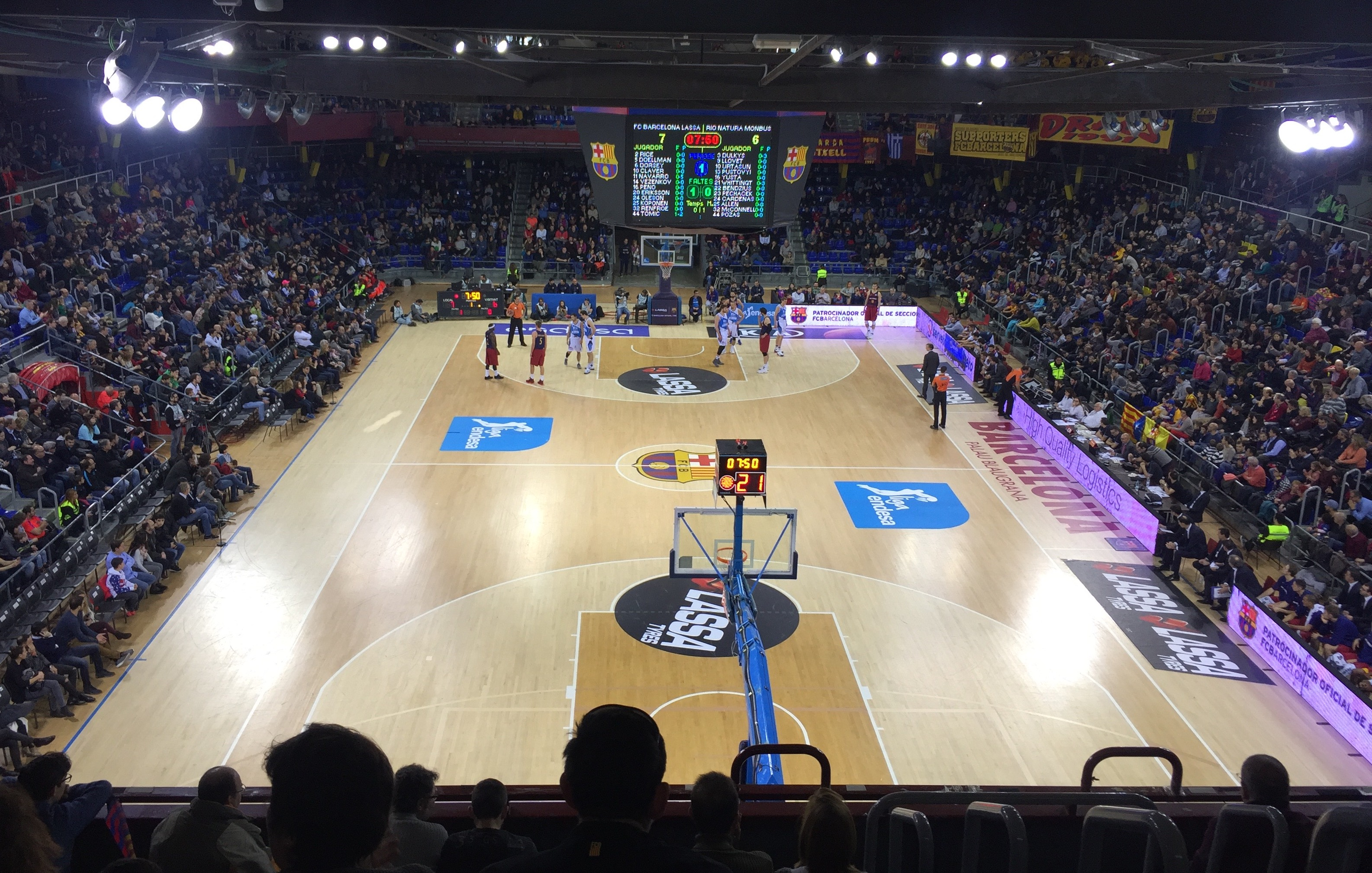 FC Barcelona Basquet playing against Rio Natura Monbus.